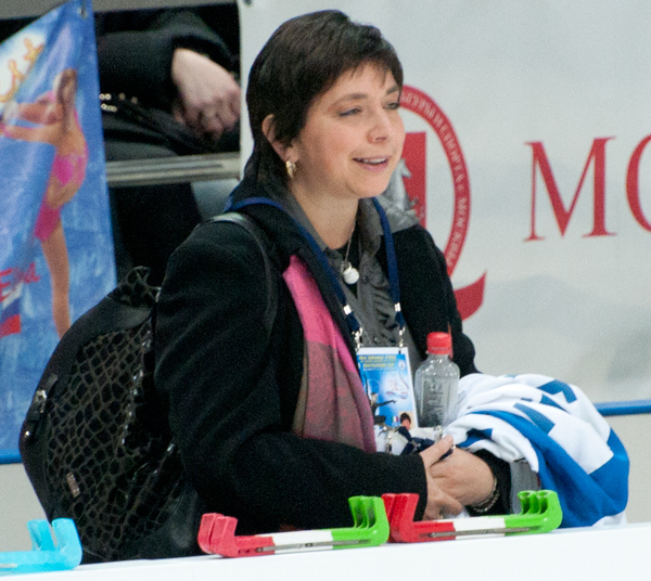 Franca Bianconi at the 2011 Cup of Russia, short program.